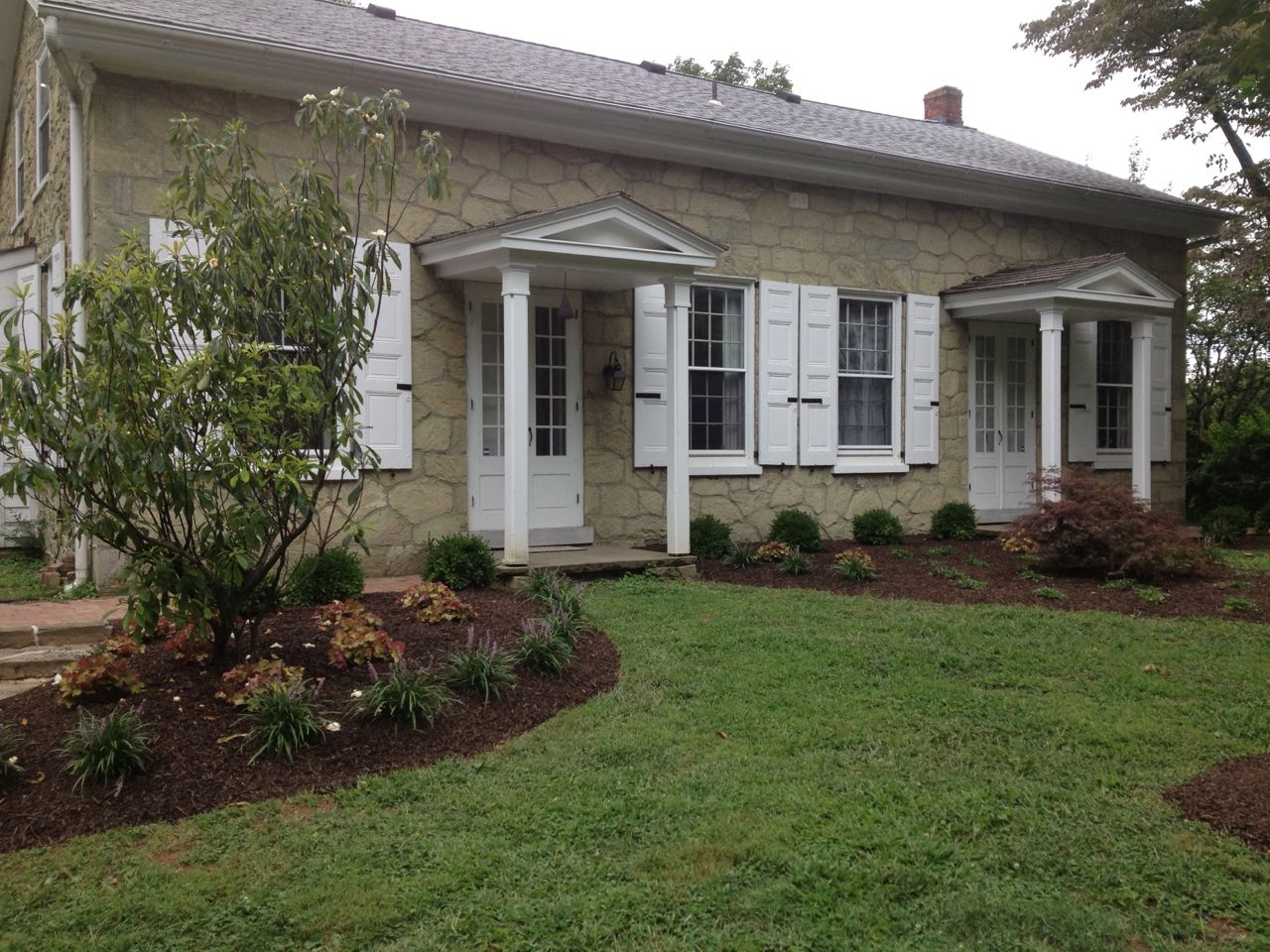 Friends Orthodox Meetinghouse in Birmingham Township, PA, buit in 1845. Now a private residence.